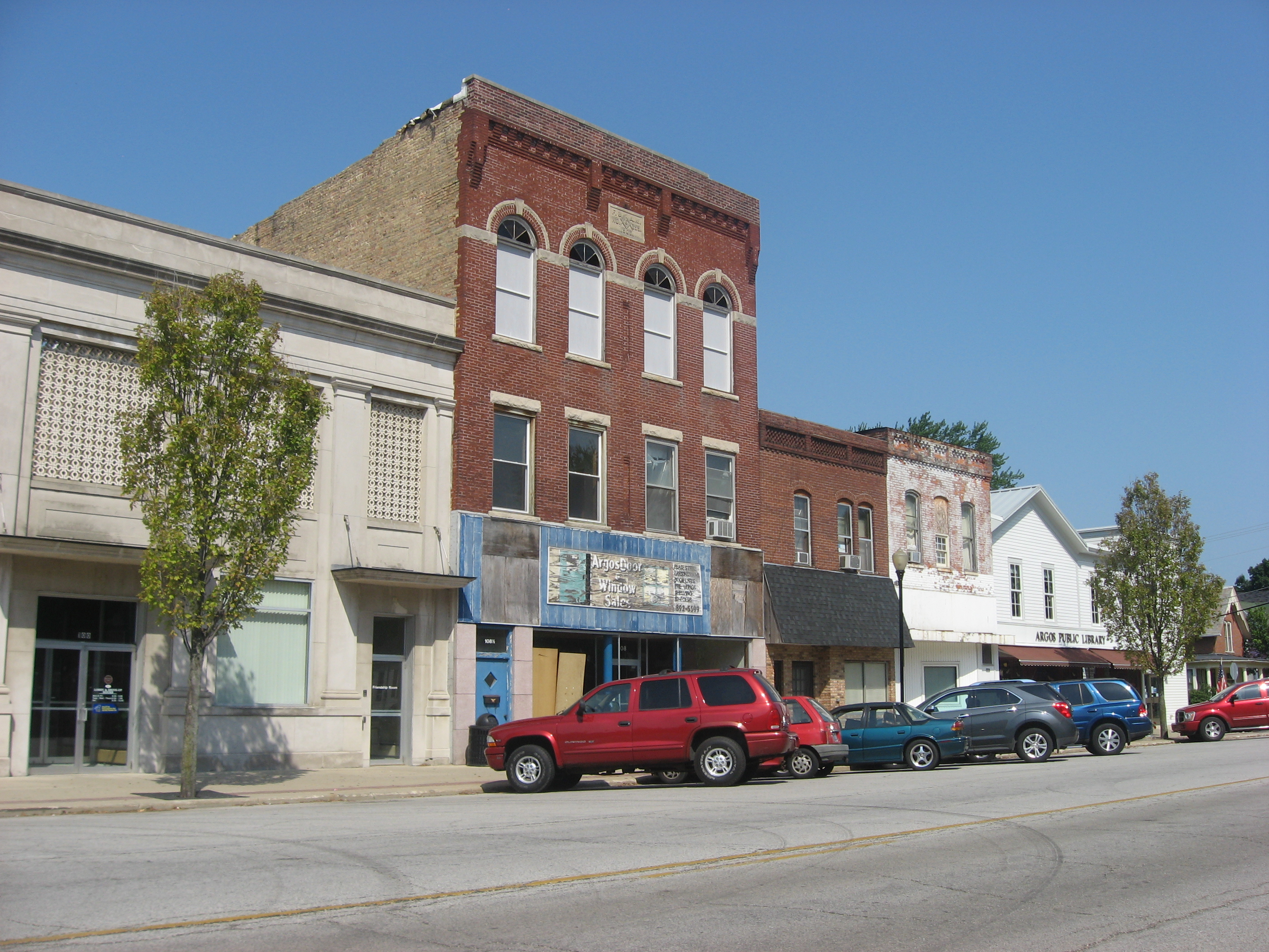 Buildings on the western side of the 100 block of N. Michigan Street (the old Michigan Road) in downtown Argos, Indiana, United States. From left to right, they are: 102 N. Michigan: Farmers State Bank; built 1917; Neoclassical 108 N. Michigan: Masonic Lodge/Grossman Building; built 1906; Romanesque Revival 114 N. Michigan: Post Office; built 1892 116 N. Michigan: State Exchange Bank; built 1883 118 N. Michigan: Schoonover Building/Argos Public Library; built 1867 This block is part of the Argos Downtown Historic District, a historic district that is listed on the National Register of Historic Places.